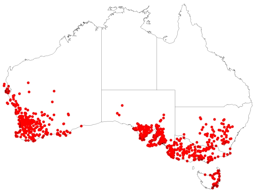 Thysanotus patersonii occurrence data downloaded 4 April 2019 from Australasian Virtual Herbarium using